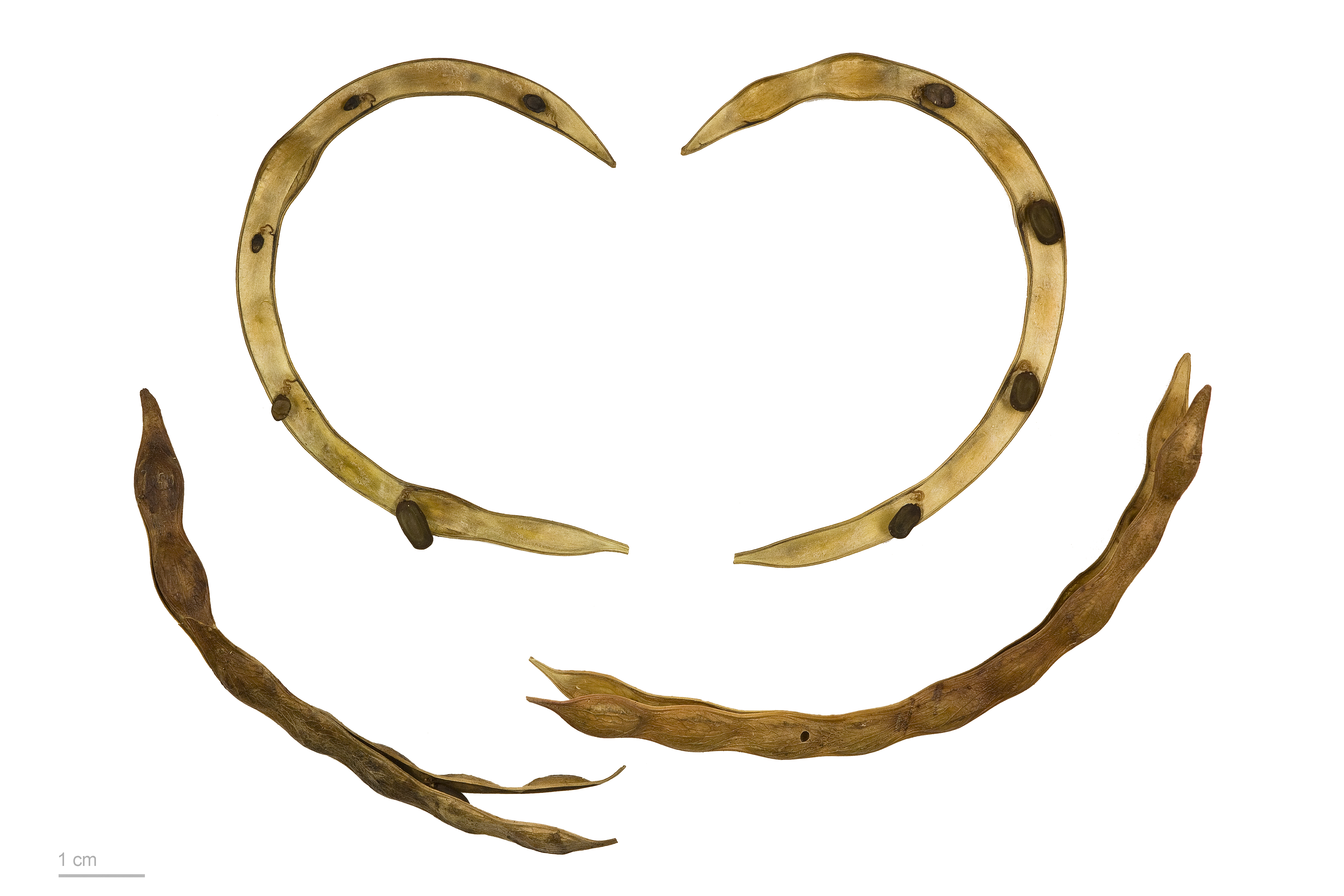 Acacia sp. , fruits and seeds